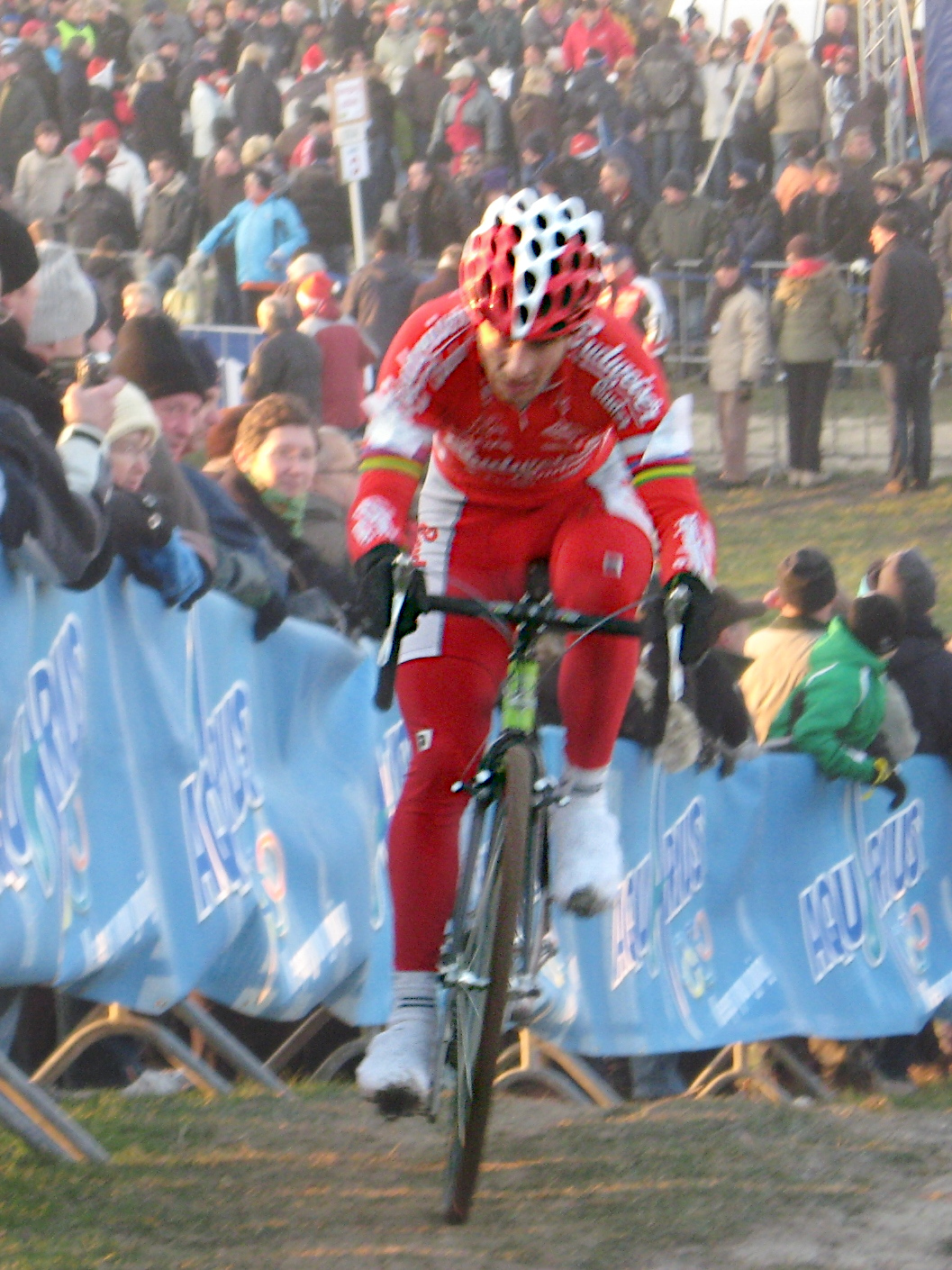 Martin Bina in action during the cyclo-cross race in Middelkerke, Belgium